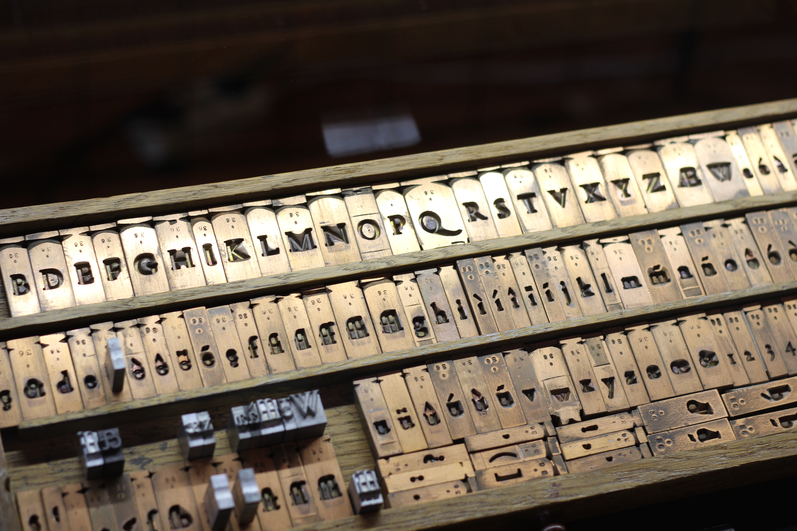 Matrices from Jean Jannon's punches, sometimes called the 'Romain de l'Université' (which according to Mosley may be a modern name; de l'Université meaning traditional metal types in eighteenth-century French printing).